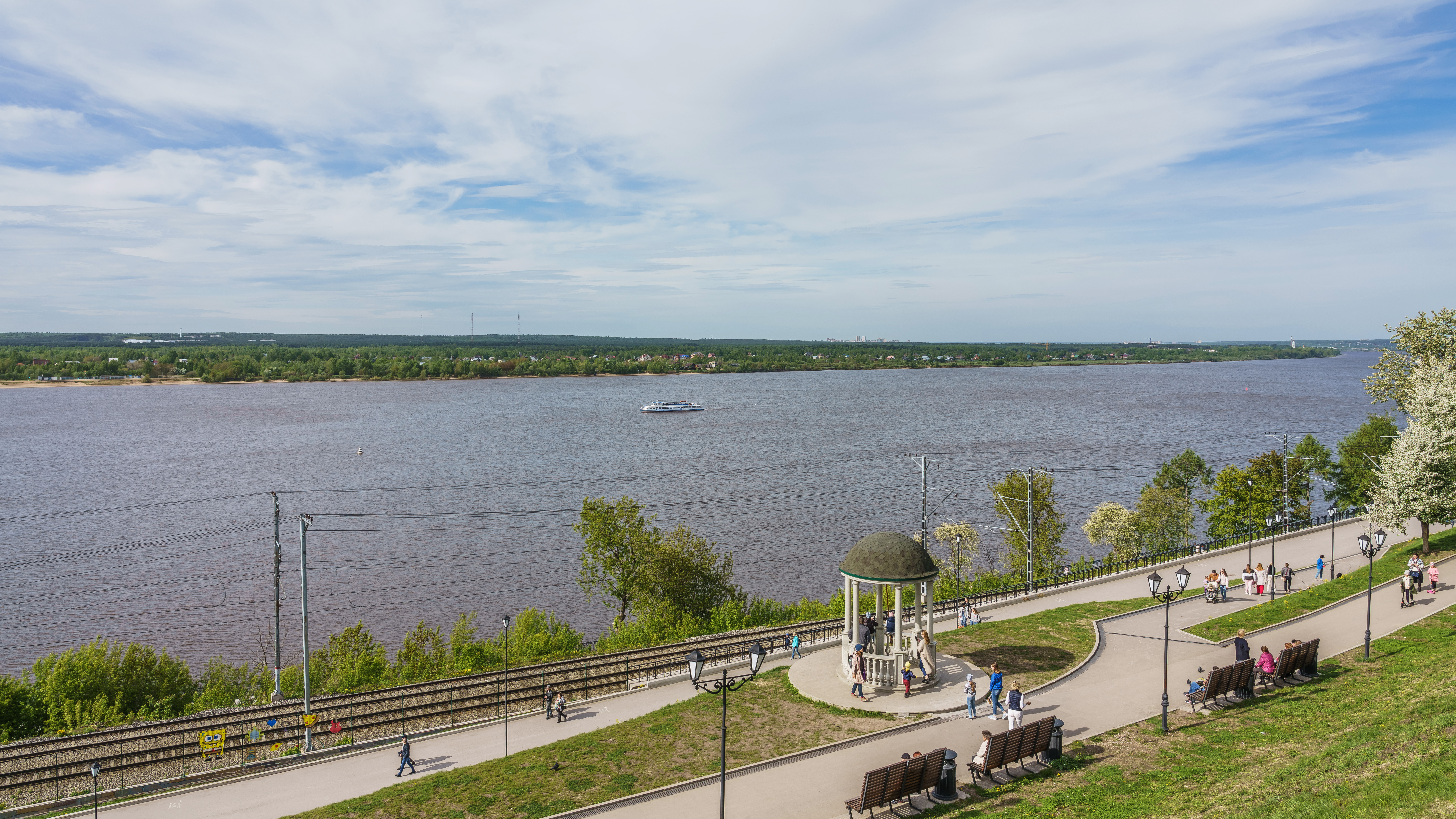 Kama River promenade in Perm, Russia